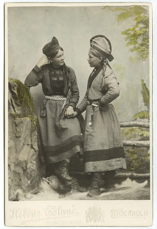 Depicted person: Inga Århén